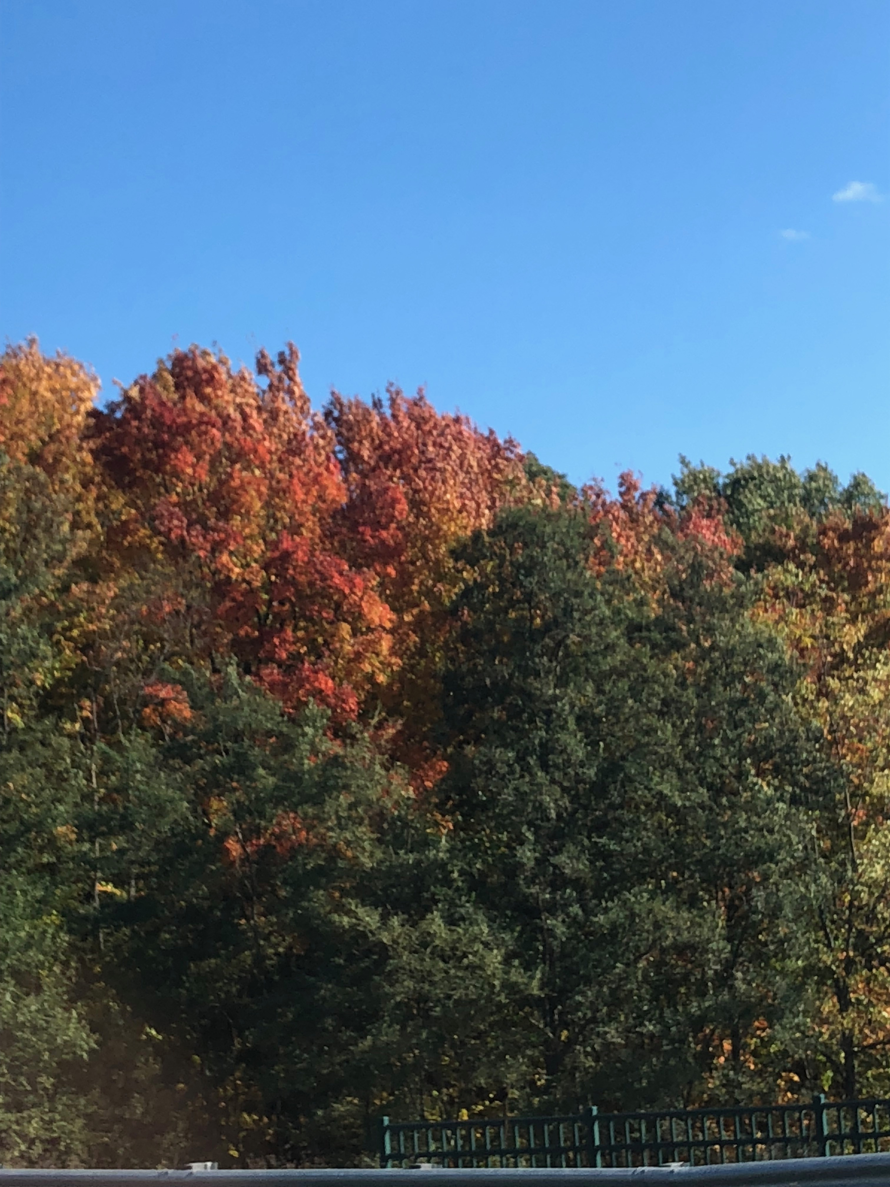 Fall Colors just south of Traverse City, Michigan (October, 2018)